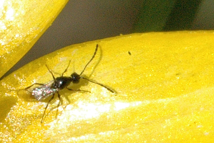 Picture taken in Commanster, Belgian High Ardennes . Species: Dasineura ranunculi